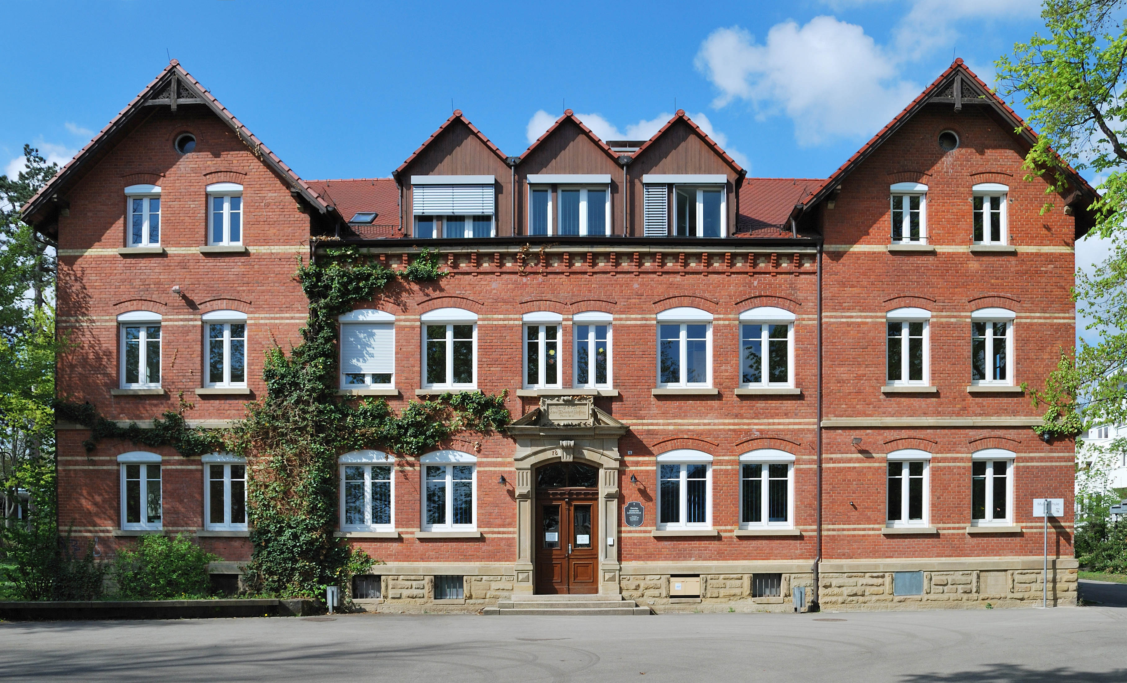 The old grammar school in Korntal in Southern Germany.